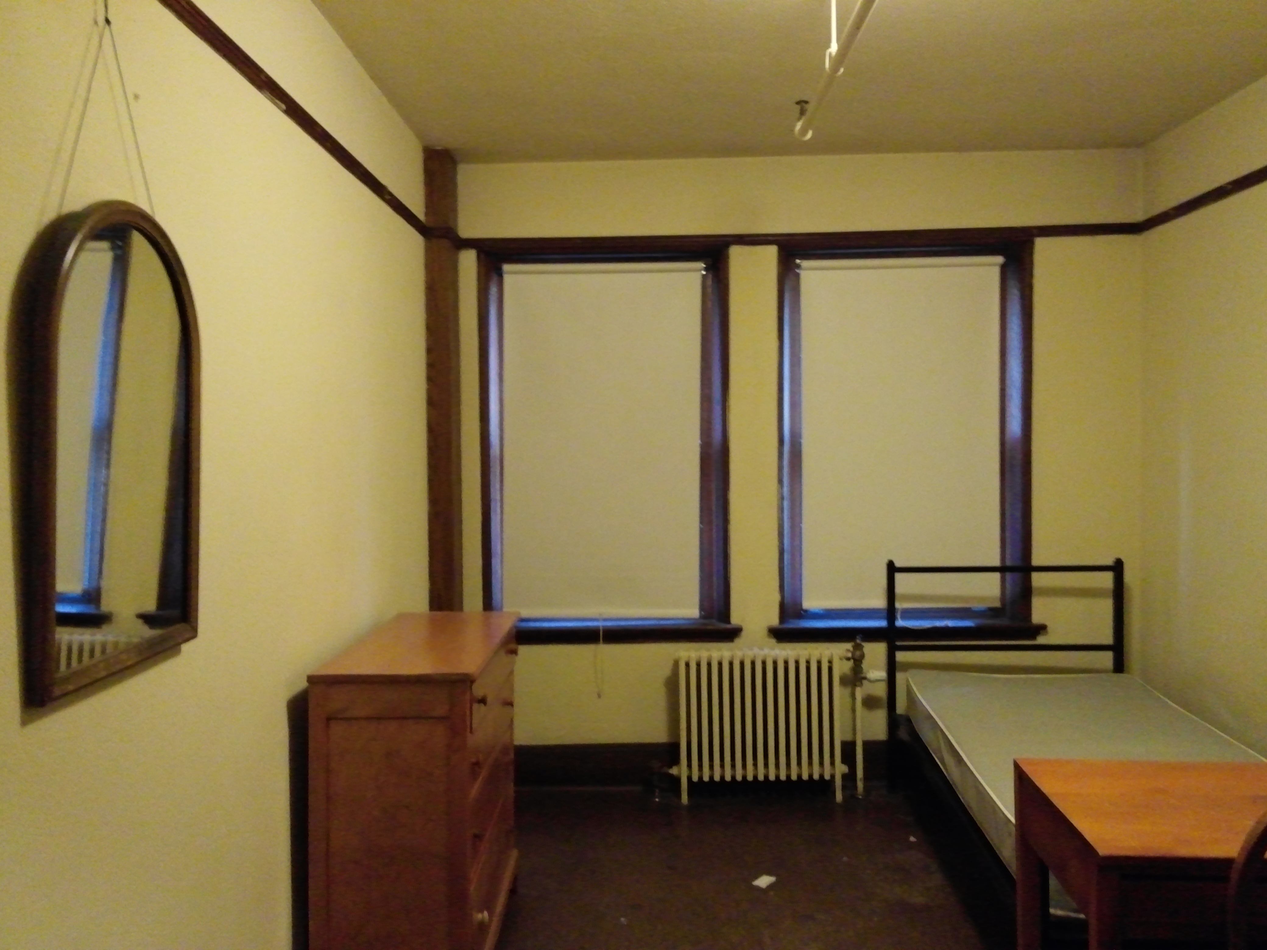 An undecorated single room in Vassar College's Cushing House.